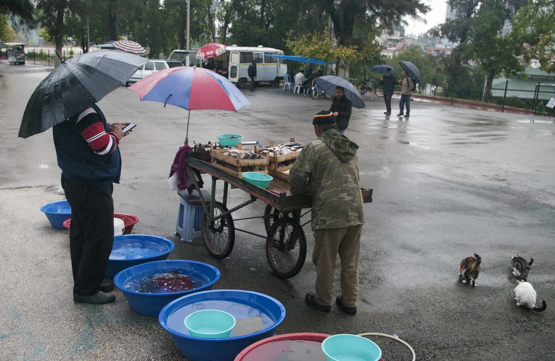 A fish seller in a rainy winter day.